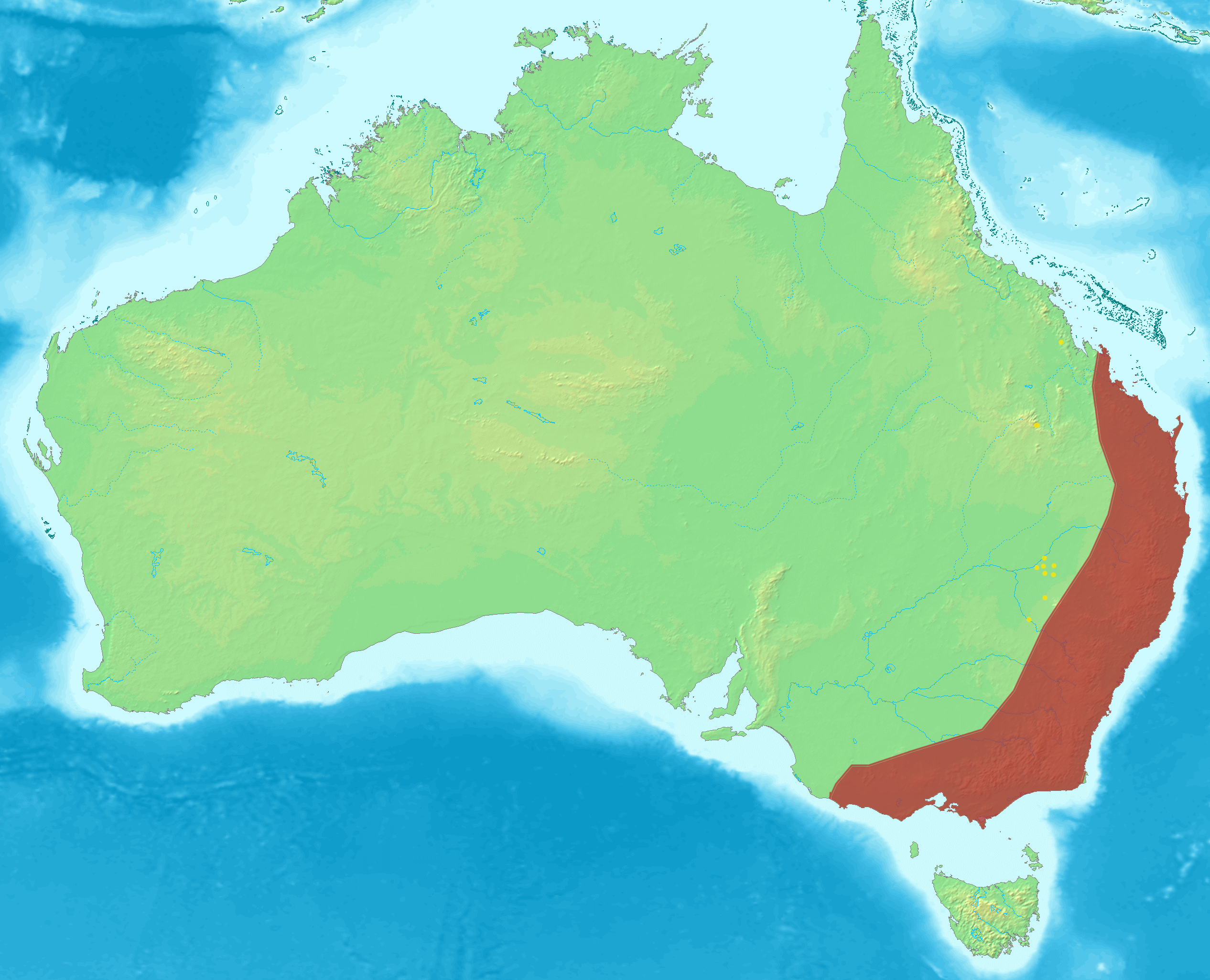 The Distribution of the Powerful Owl